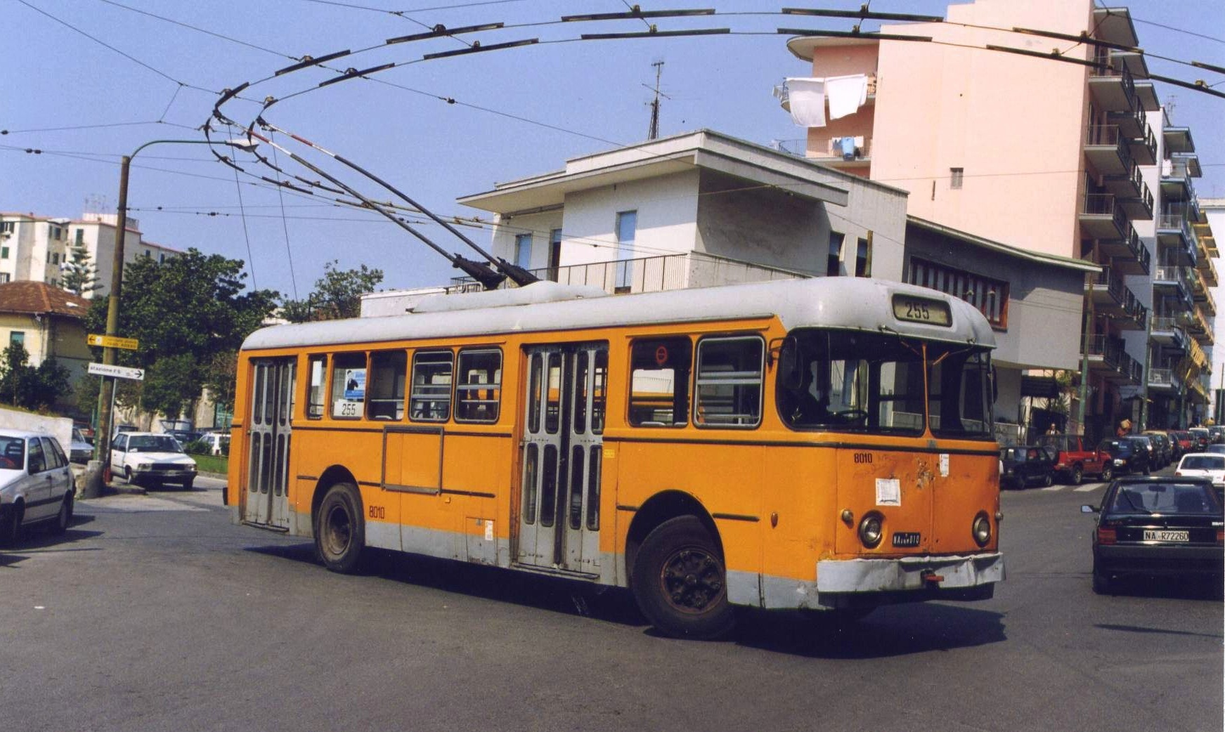 1961 Alfa Romeo 1000F trolleybus No. 8010 of the Naples trolleybus system in Torre del Greco, turning around at the outer terminus of route 255, in April 1999. The last Alfa Romeo trolleybuses were retired at the beginning of March 2001.